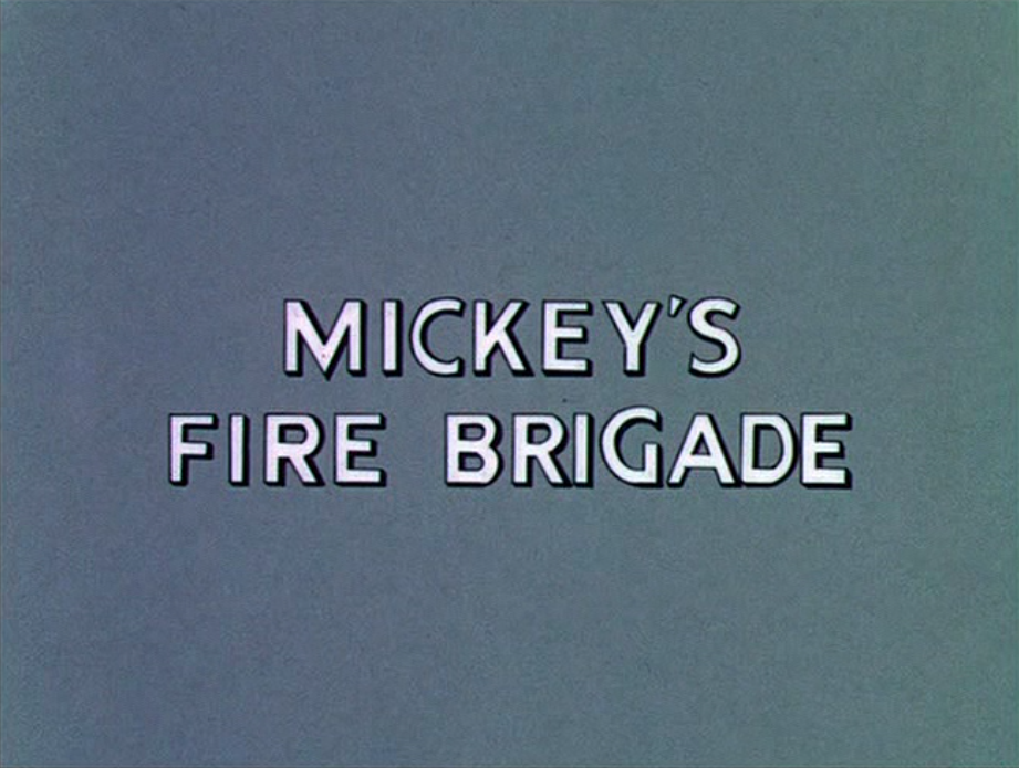 Title card from Disney short Mickey's Fire Brigade (1935)